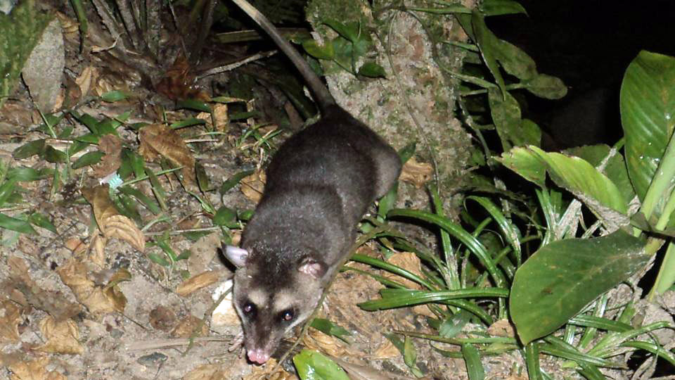 Gray four-eyed opossum, Philander opossum. NOTE: this version is cropped and adjusted in brightness from the original.